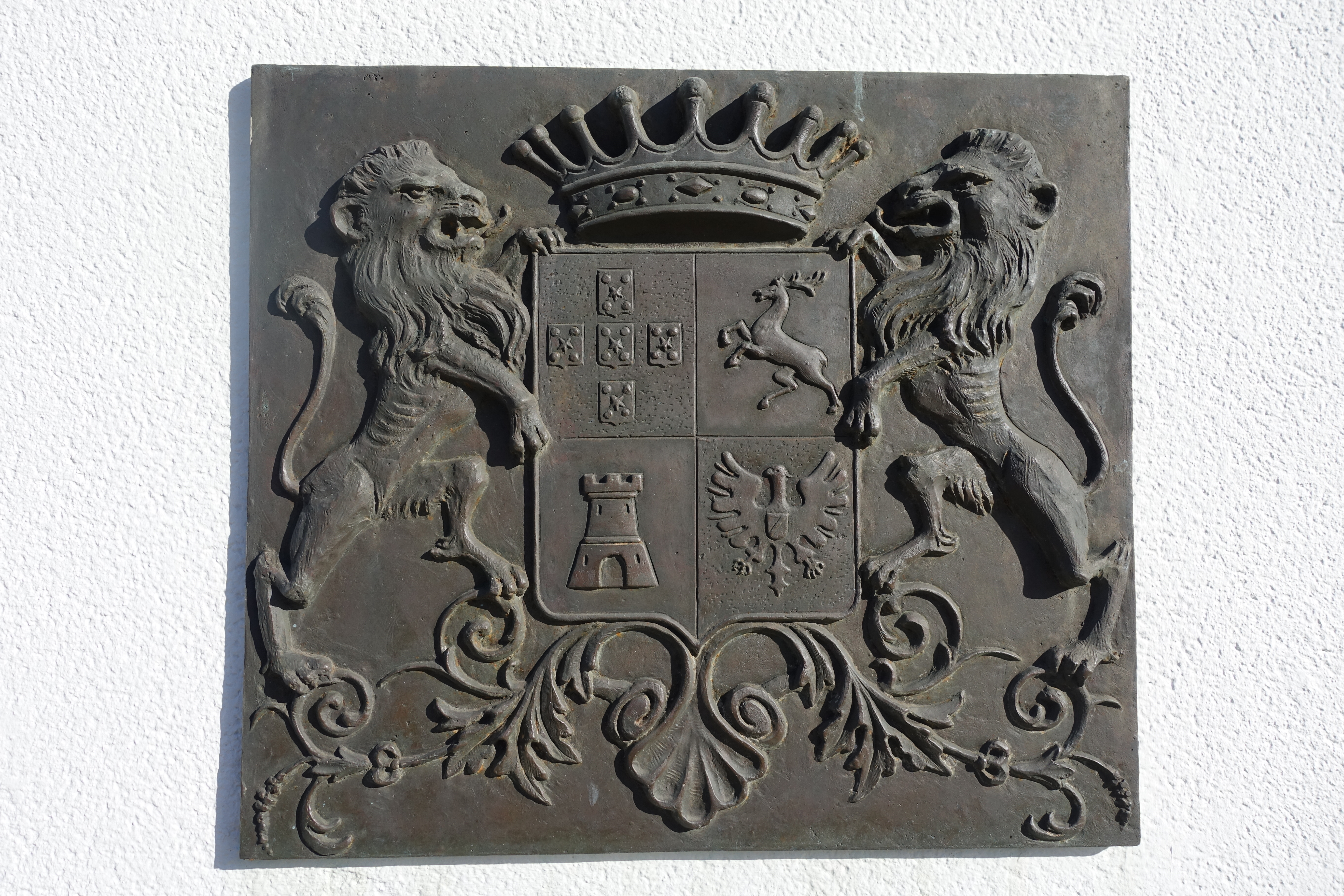 Conde de Agrolongo monument in Braga, Portugal.